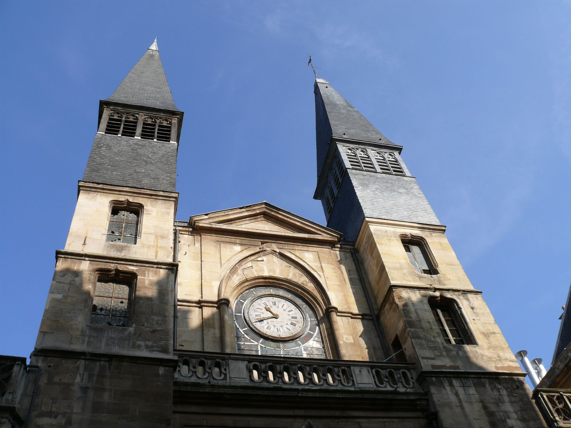 Saints Leu and Gilles' church, in Paris (Paris I, France)